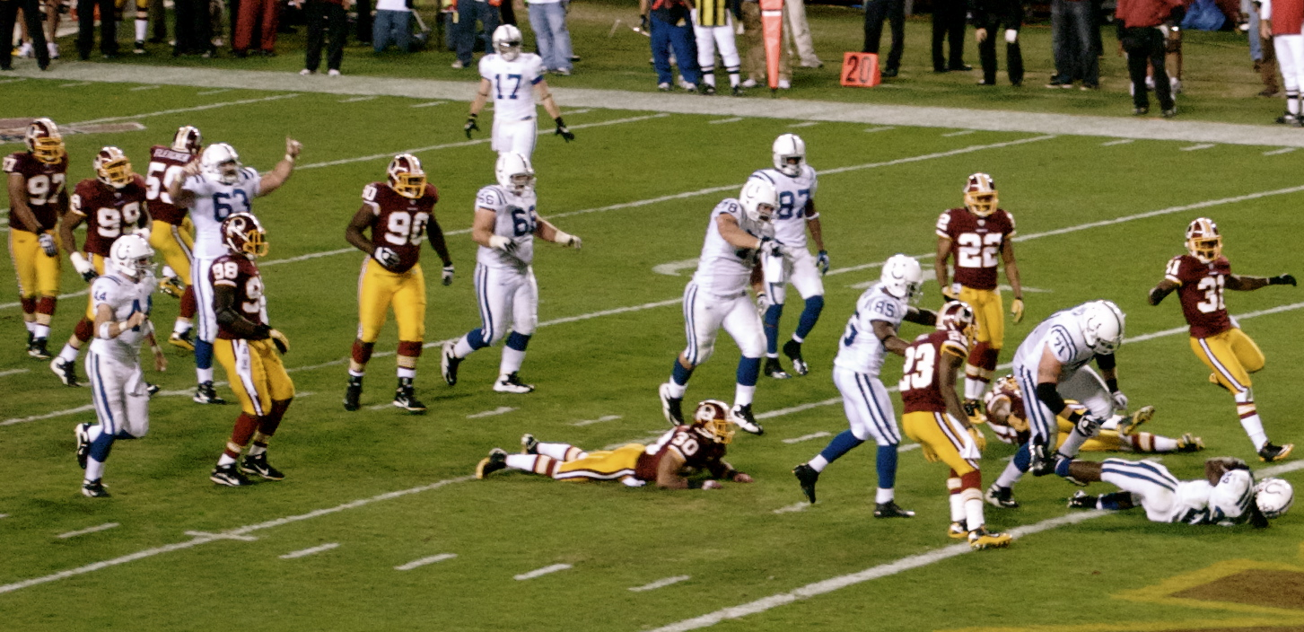 Indianapolis Colts at Washington Redskins, 2010 NFL season Week 6. The game was televised live in the United States on NBC under the game package NBC Sunday Night Football.